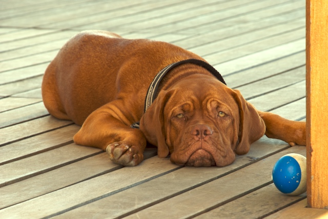 Dogue de Bordeaux